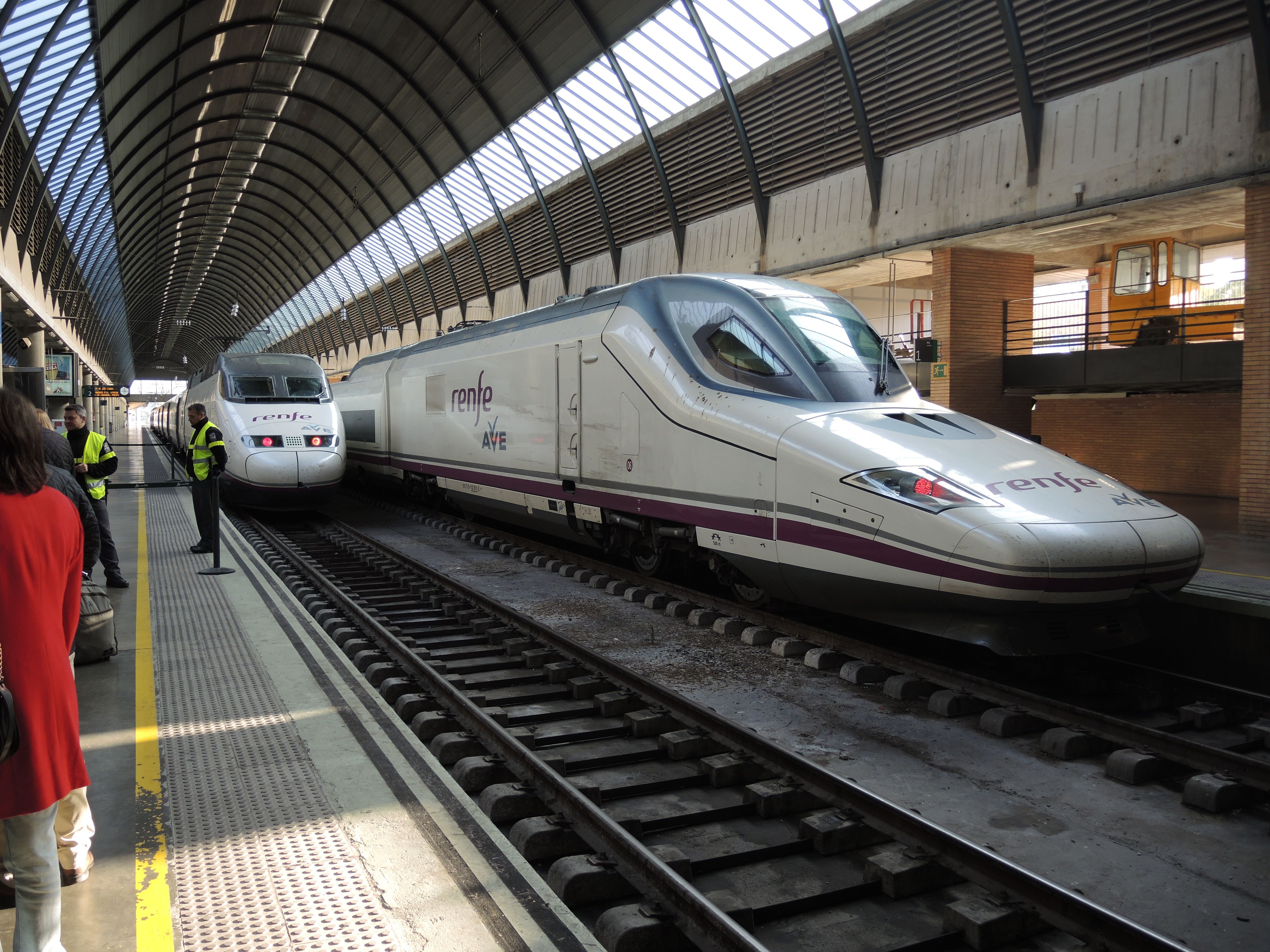 Trains at Seville Santa Justa station